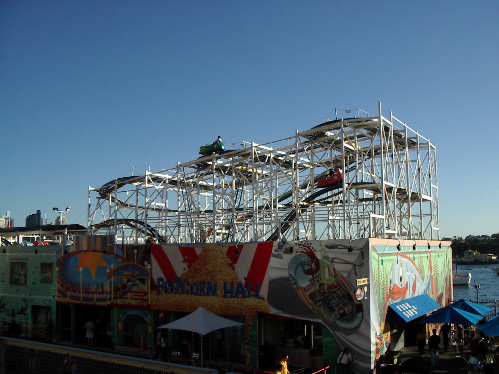 Photograph displaying the Wild Mouse, a Wild Mouse roller coaster located at Luna Park Sydney.